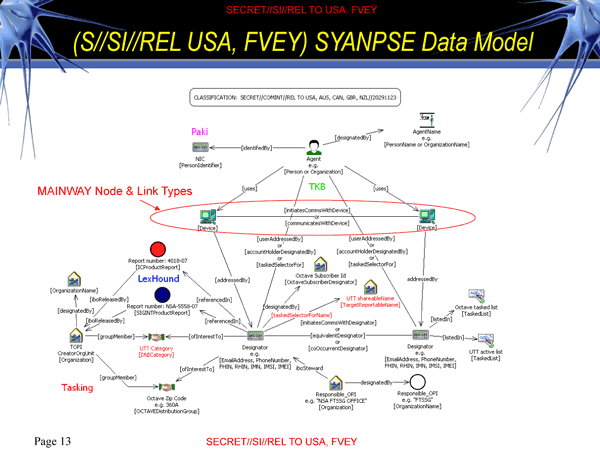 This slide from an N.S.A. PowerPoint presentation shows one of the ways the agency uses e-mail and phone data to analyze the relationship networks of intelligence targets.